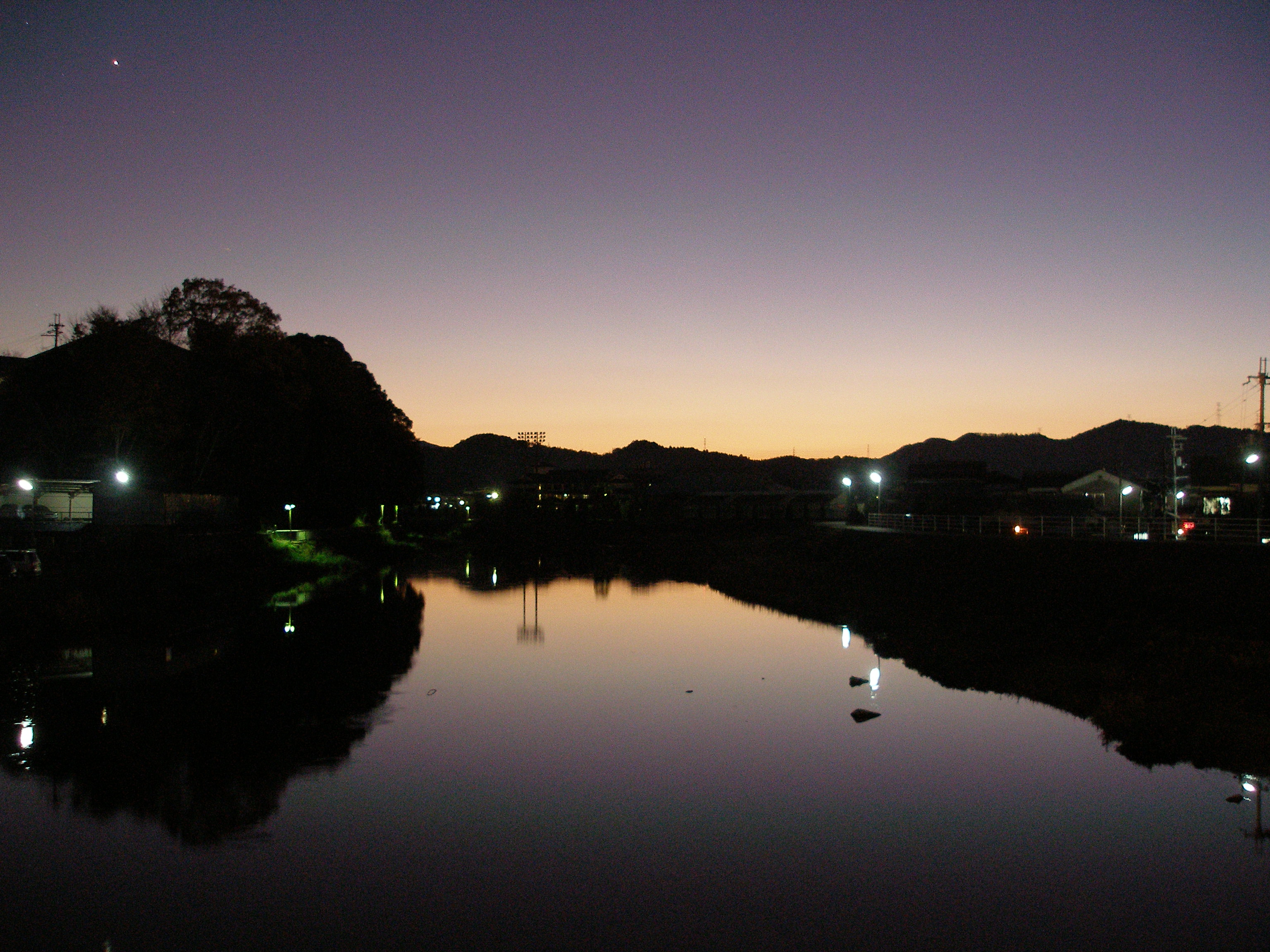 Sunset View of Sonobe over the river